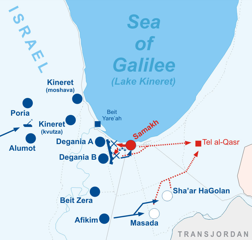 Battles and troop movements in the Battle of Degania, May 20-21, 1948. Legend: Full circle: inhabited village Full cluster: city Square: manned outpost Triangle: unmanned outpost or uninhabited notable site Blue color: Jewish Green color: Israeli Arab Red color: Syrian Mixed color indicates a captured outpost/town (outline color denotes victor) Grey line: Main road Dotted grey line: Secondary/unpaved road Artillery symbol: Artillery position 3 flame symbols: Position shelled by artillery 3 bomb symbols: Position bombed from the air Arrow: Troop movement Solid line with protruding dashes: Frontal entrenchment/position Two swords: Battle (blue indicates Israeli victory, red indicates Syrian victory, magenta indicates stalemate) Dotted troop movement indicates a major/notable retreat